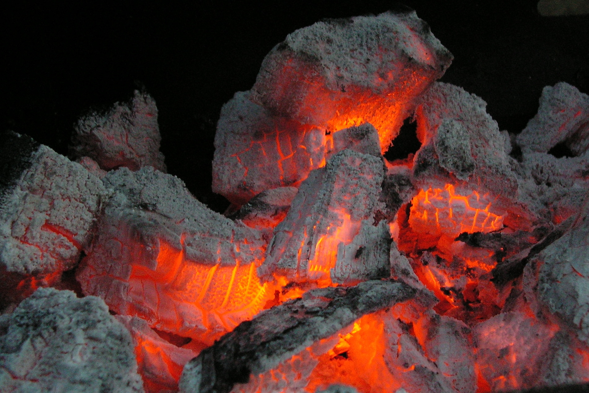 Glowing Embers, From my last barbecue of the summer of 2006.